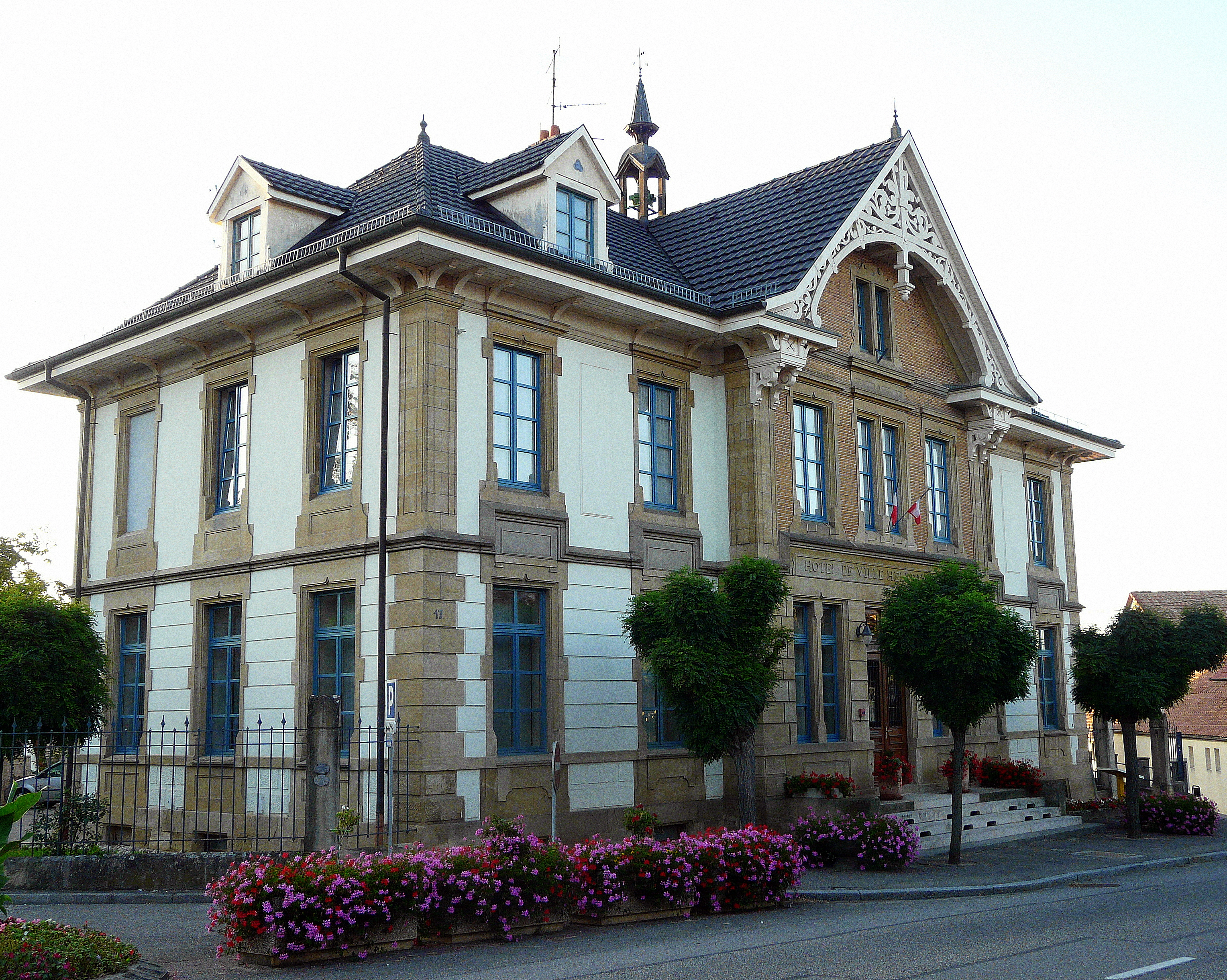 Cityhall of Helfrantzkirch (Alsace - France)